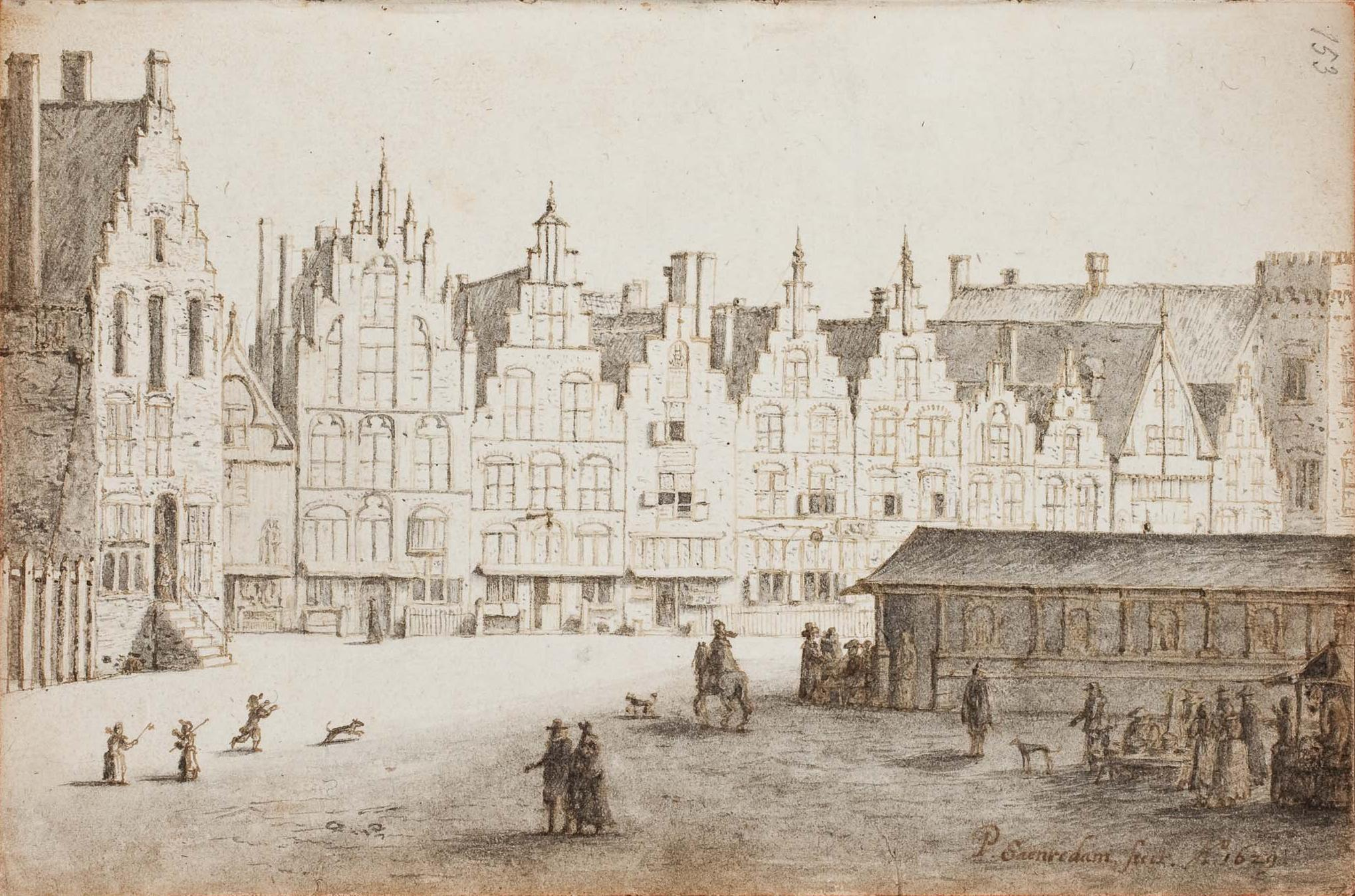 View of the Markt in Haarlem. 1629. Pen and brush in brown and gray on paper. Dimensions unknown. From Album Amicorum van P. Scriverius, fol. 153r. The Hague, Koninklijke Bibliotheek.